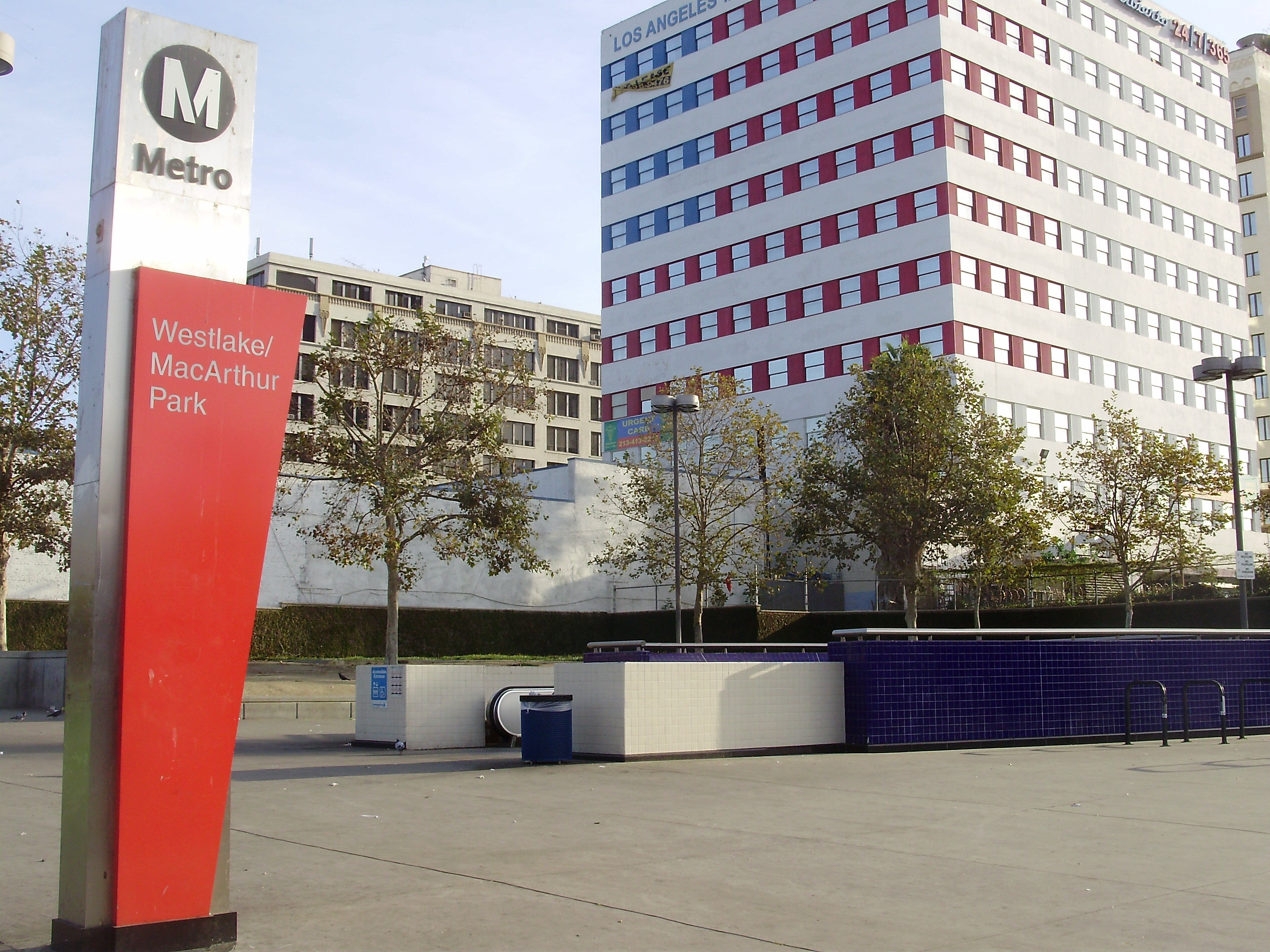 One of two entrances into the Los Angeles County Metropolitan Transportation Authority's Westlake/MacArthur Park metro station in Los Angeles, California, USA.